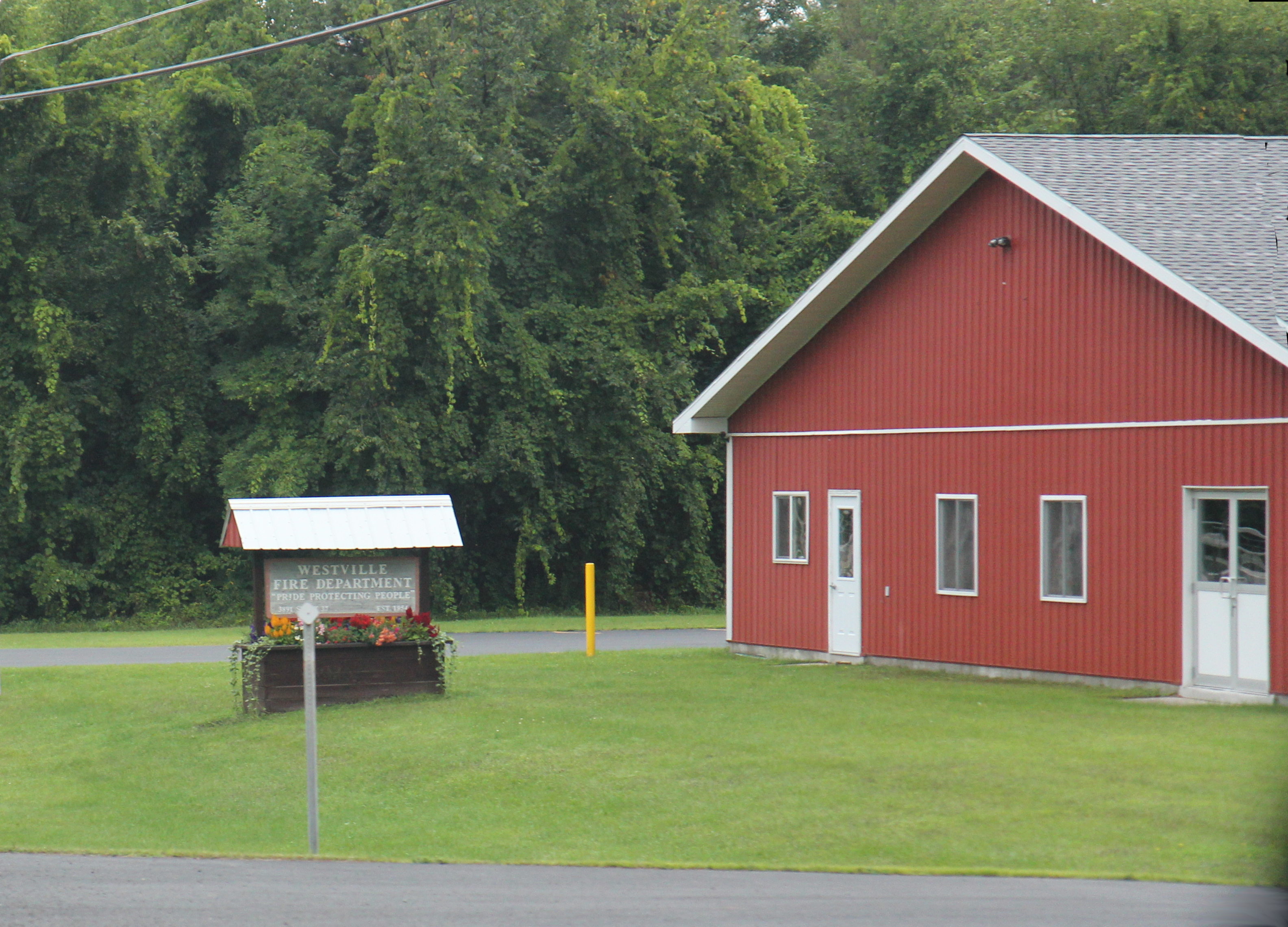 The fire department for Westville, New York, photographed from NY State Route 37.